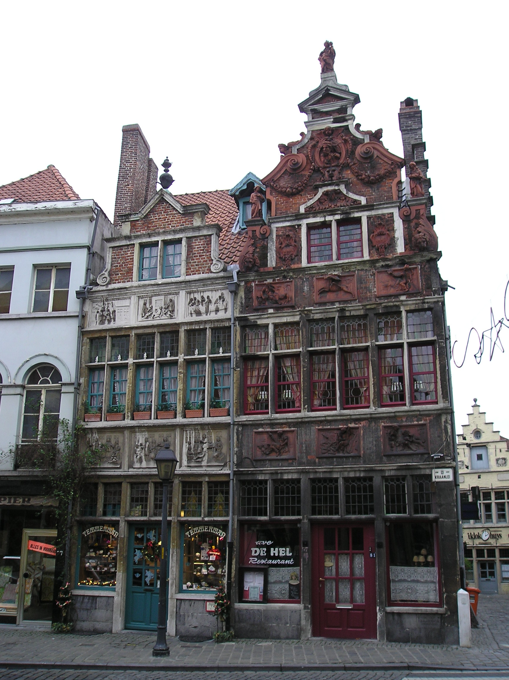 Twee oude huizen in Gent, aan de Kraanlei, bij het Patershol